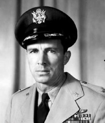 Patrick D. Fleming, Deputy Commander of the 93rd Bomb Wing, Castle AFB.